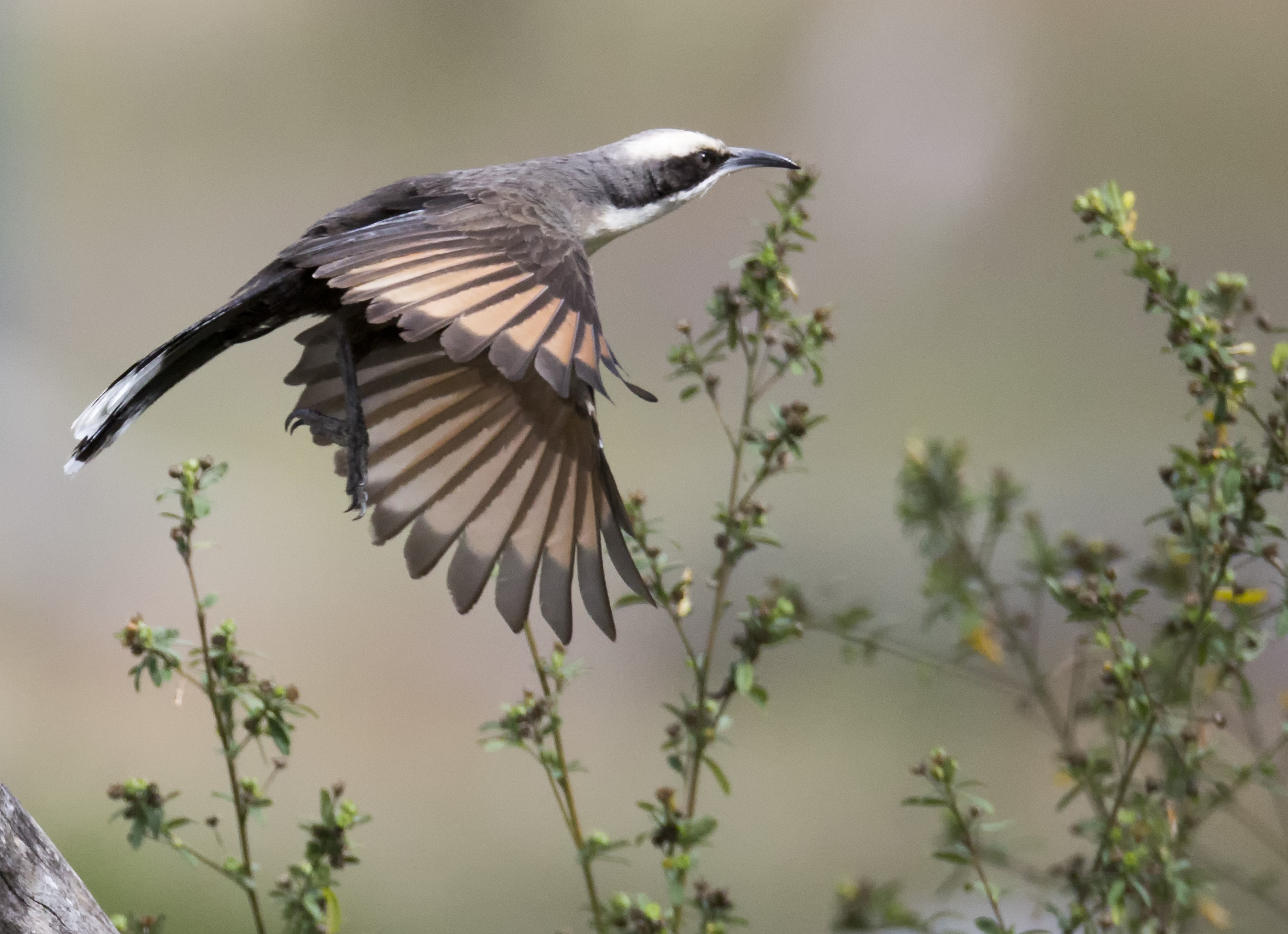 A babblers bust morning